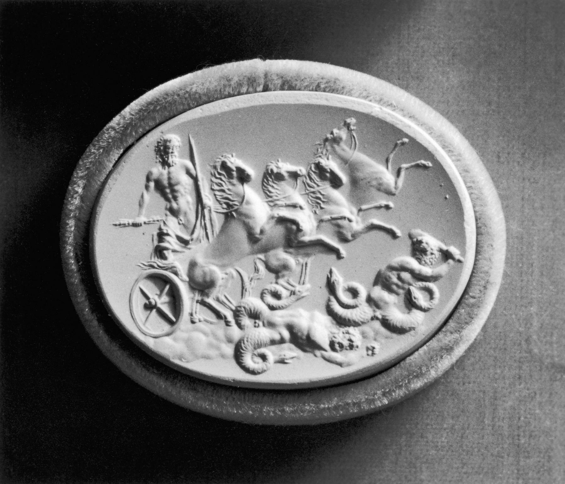 During the contest between Zeus and the giants (the Gigantomachy), Zeus, shown in his chariot, tramples two giants in human form with serpent legs. The prototype for this intaglio is a gem now in the National Museum of Naples. Both are signed in Greek "Athenion," the name of an ancient gem engraver.